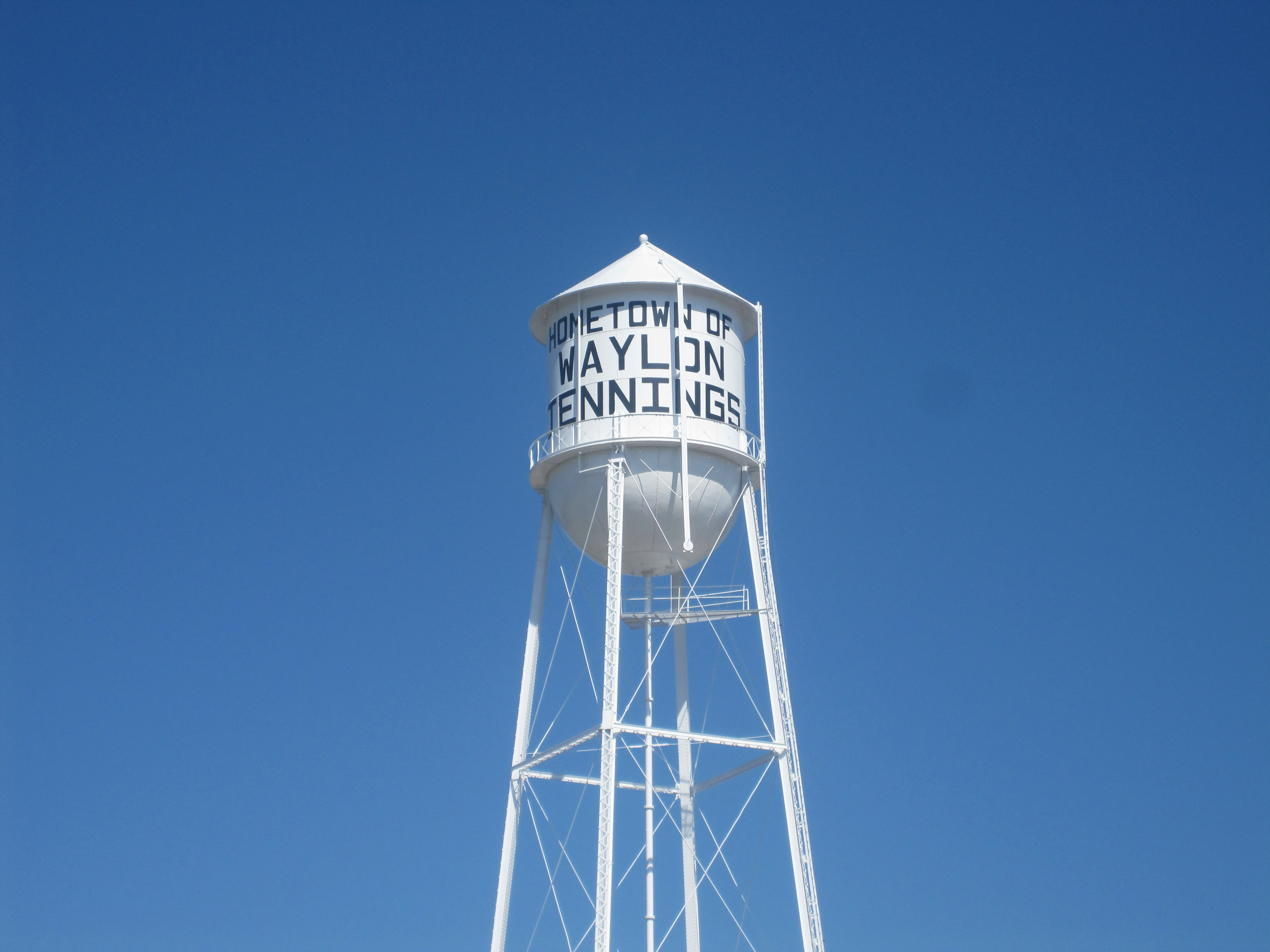 I took photo with Canon camera in Littlefield, TX.